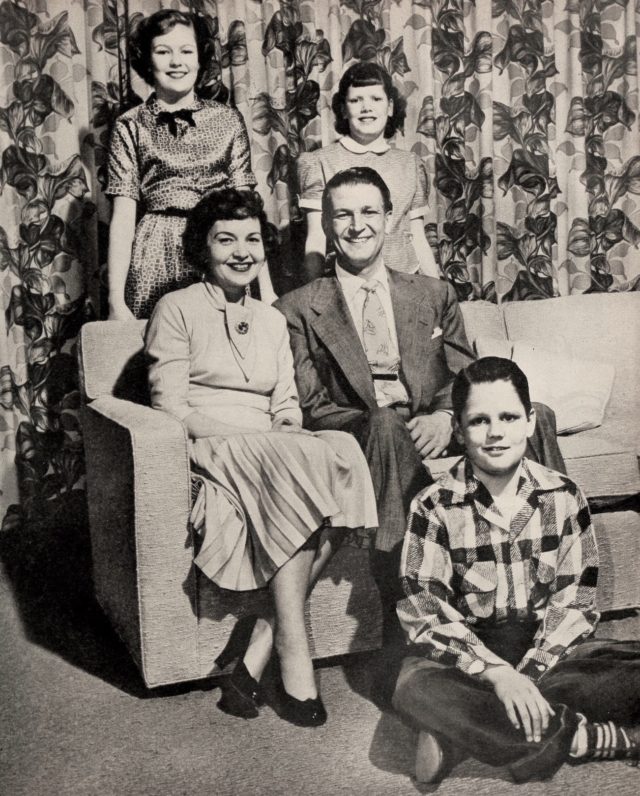 Marian Shockley and Bud Collyer with their children Cynthia, Patricia and Michael, 1953